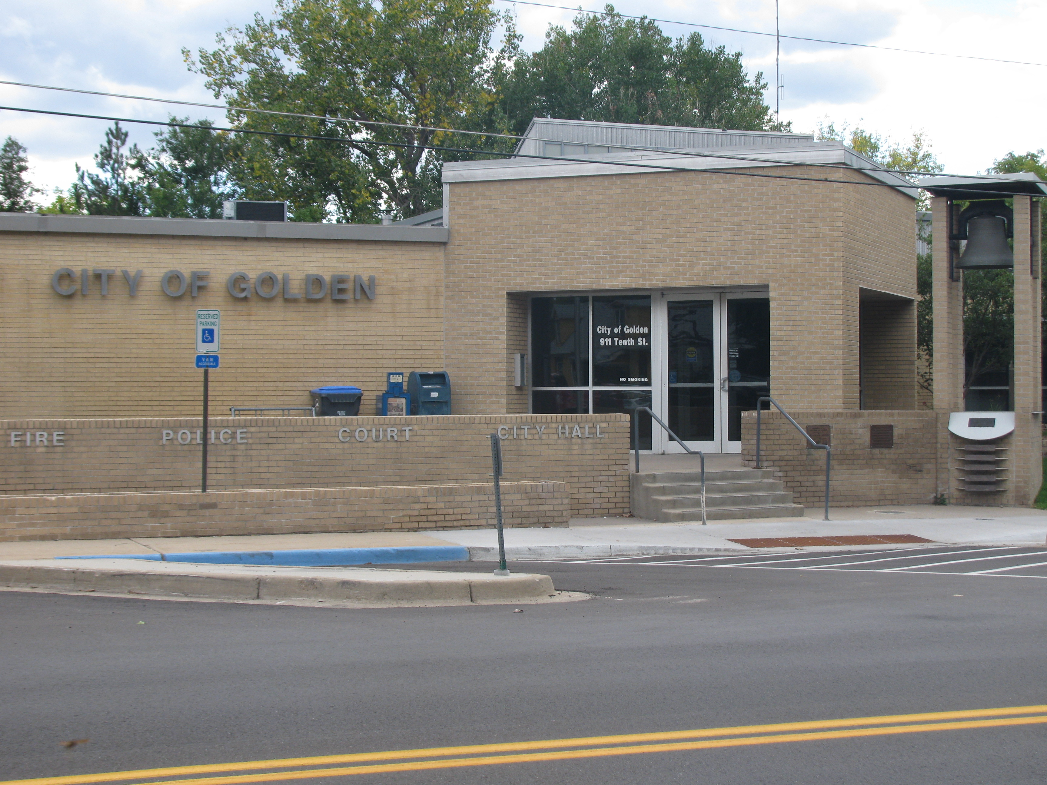 City Hall of Golden, Colorado, United States.